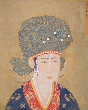 The Official Imperial Portrait of Song Dynasty's Empress